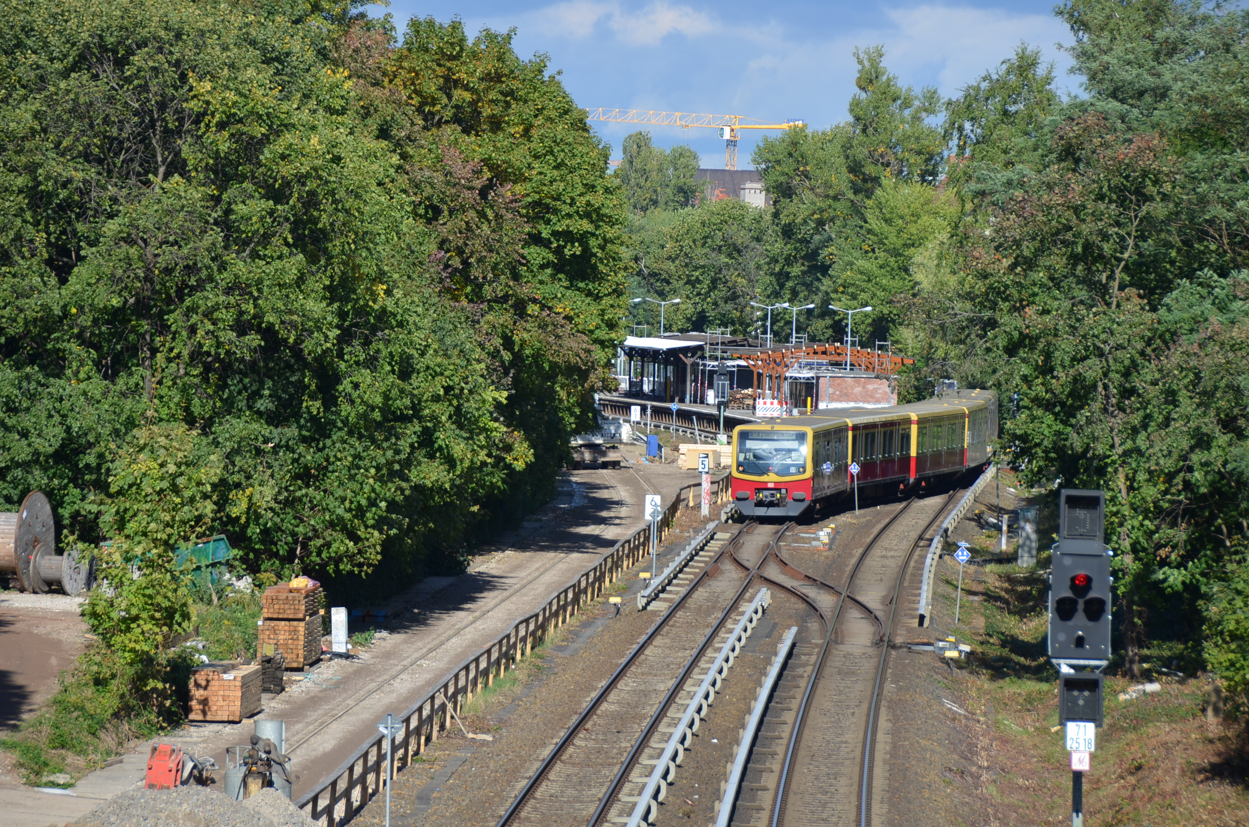 Wannseebahn mit Bahnhof Großgörschenstraße, Beginn der Bauarbeiten für den Wannseebahnradweg